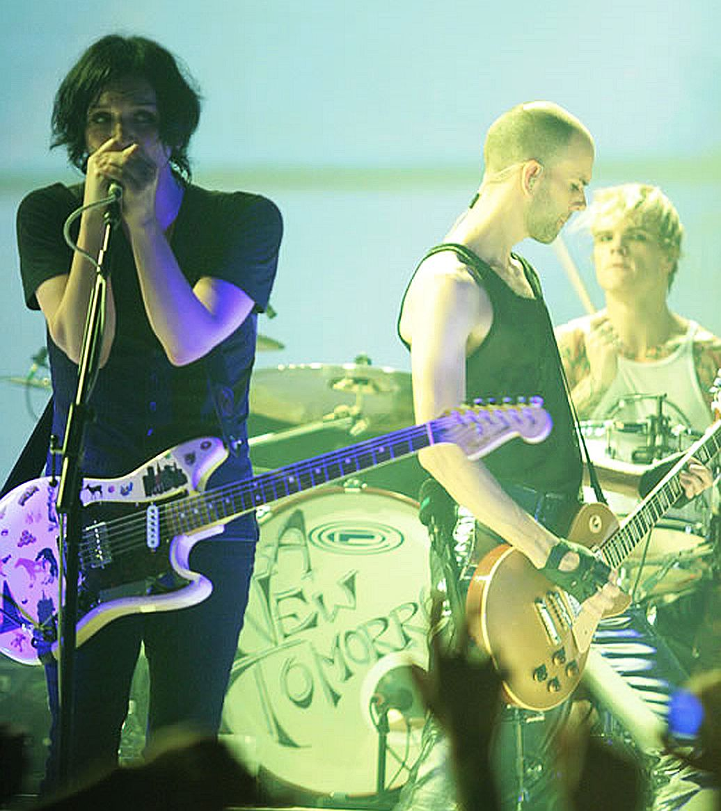 Rock Band Placebo in concert in Bologna on November the 29th 2009